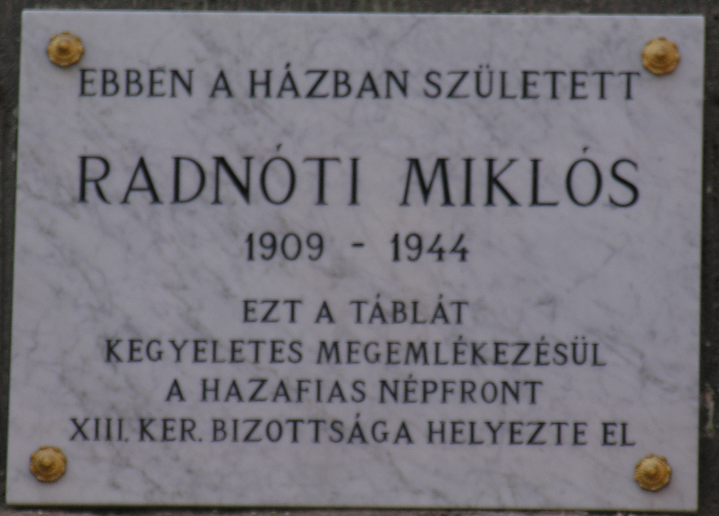 Commemorative plaque of Miklós Radnóti in Budapest District XIII, Kádár Street No 8